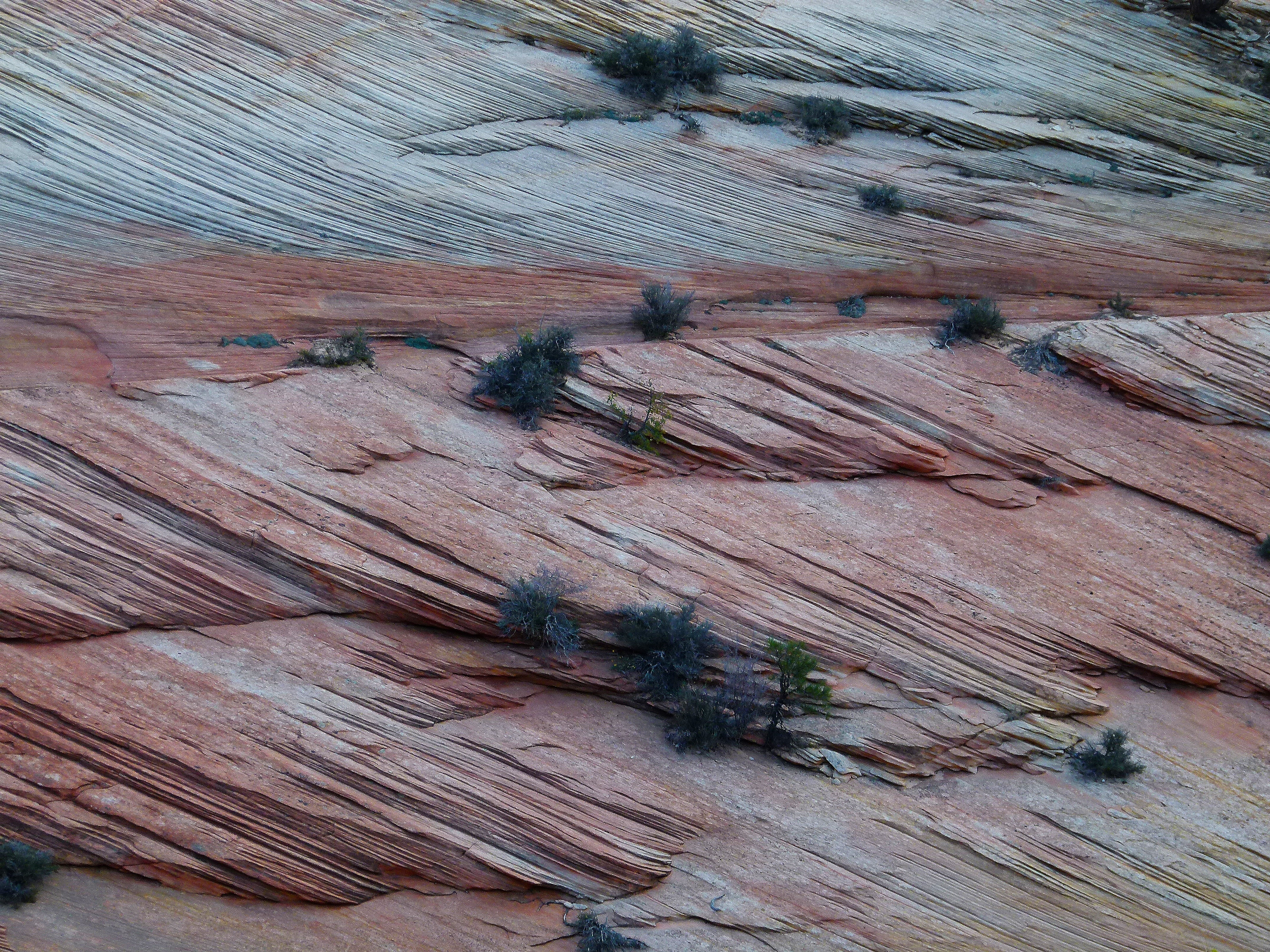 Cross-bedded sandstone in Zion National Park in Utah, USA.